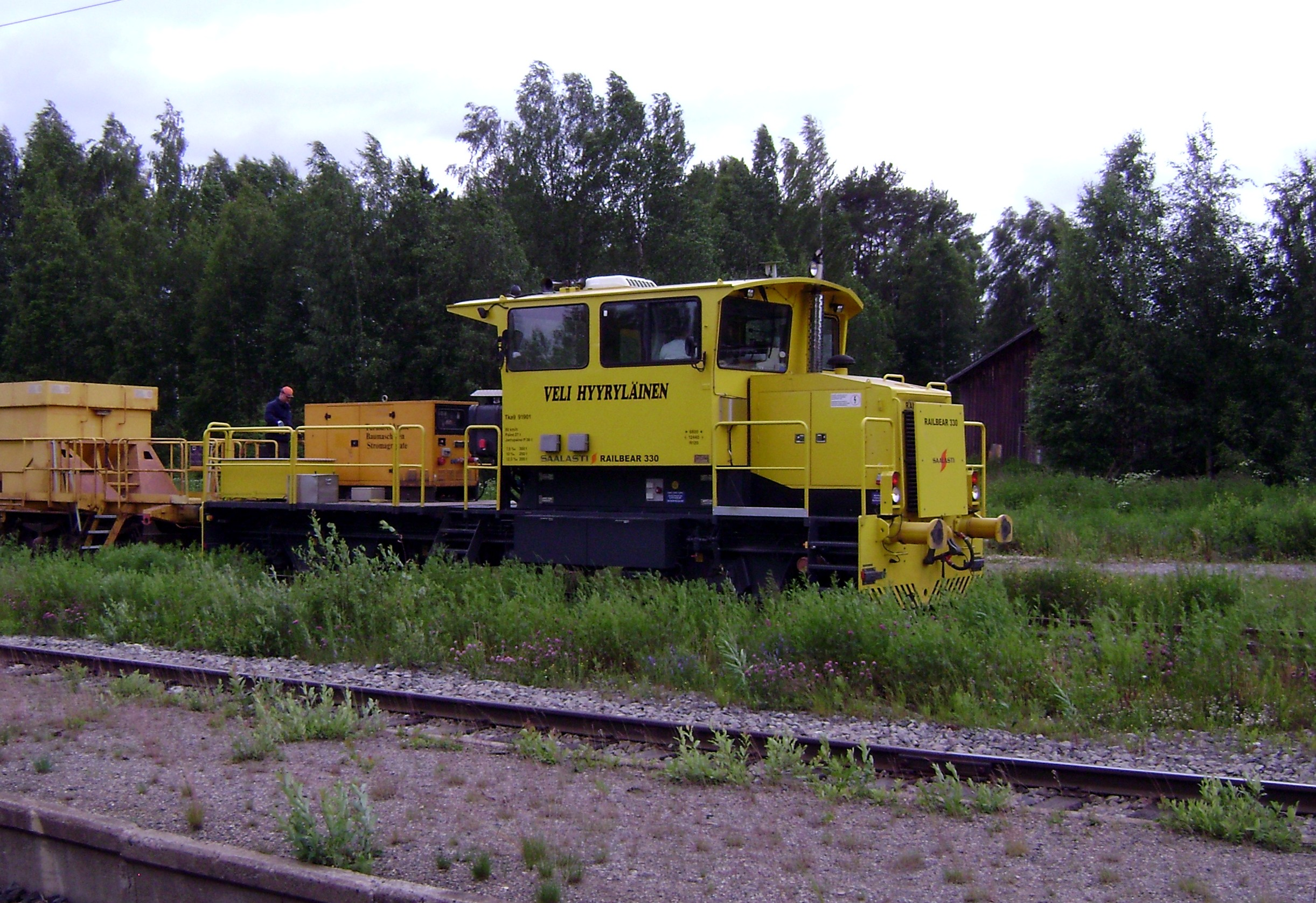 Tka9 track-lorry in Tervola, Finland